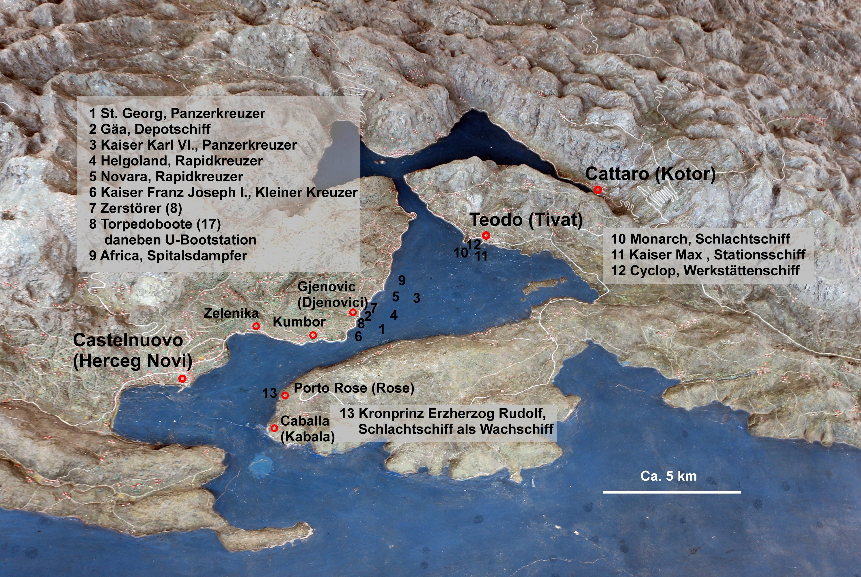 Picture prepared by Klaus Kuhl (kuhl-k) based on „Carta geografica in rilievo del montenegro, 1917, 04 bocche di cattaro.JPG“ (Wikimedia) and information from: Richard, G. Plaschka: Cattaro – Prag. Revolte und Revolution. Kriegsmarine und Heer Österreich-Ungarns im Feuer der Aufstandsbewegungen vom 1. Februar und 28. Oktober 1918. Graz 1963.